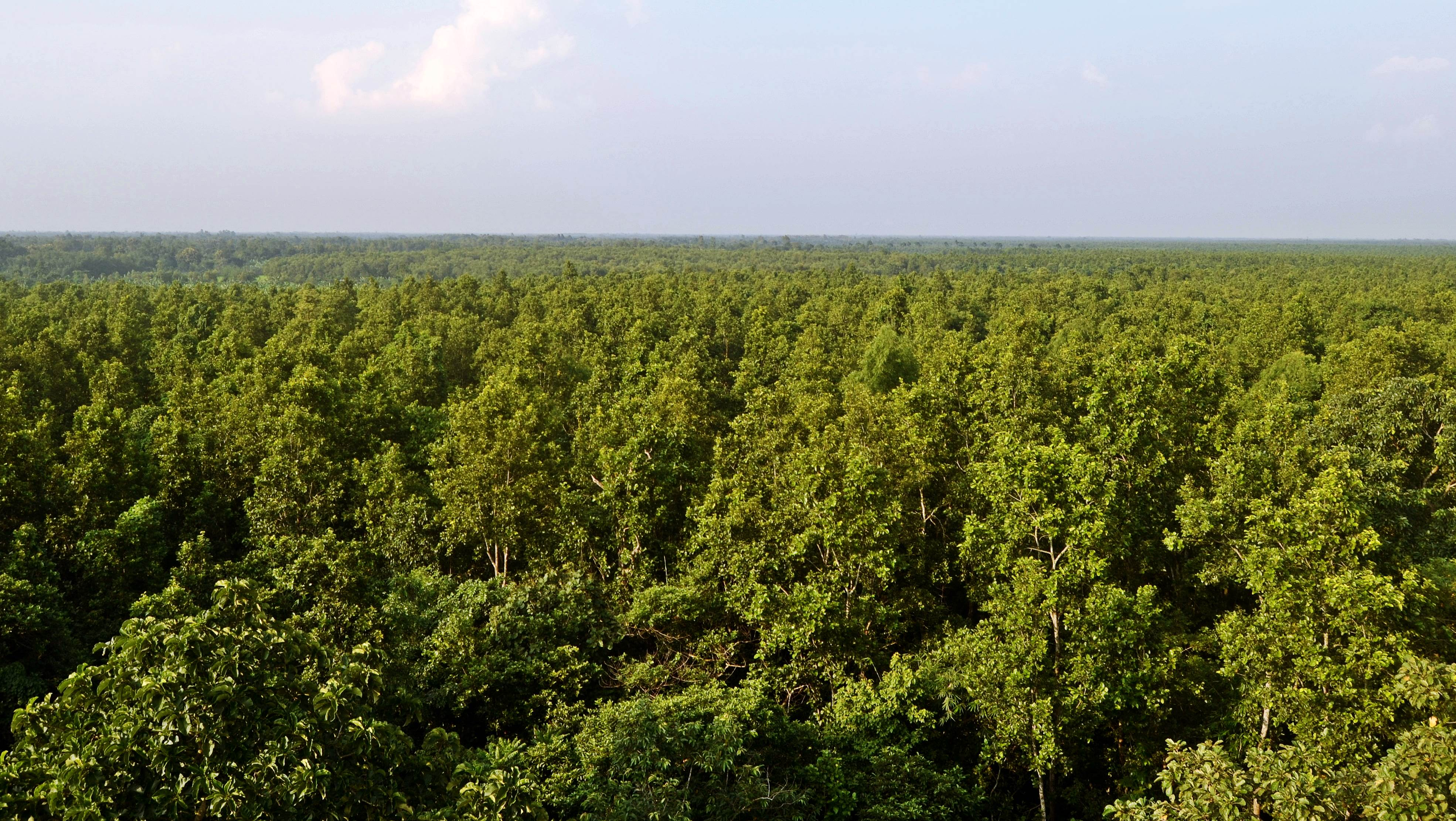 Madhupur shal forest is the largest shal forest in Bangladesh.